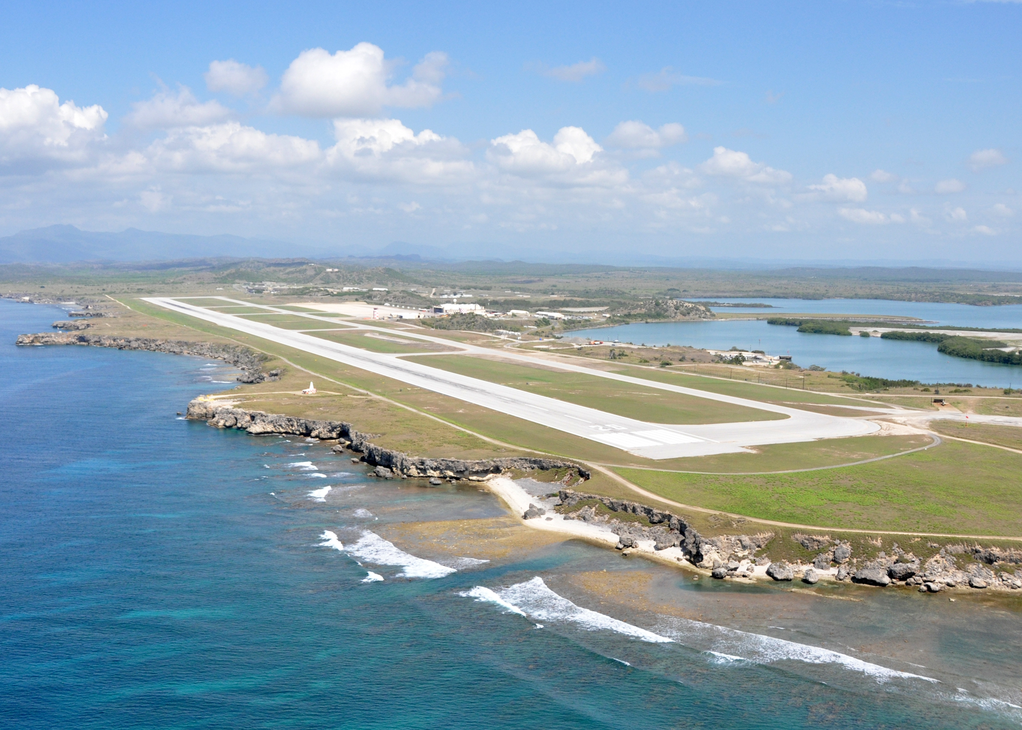 GUANTANAMO BAY, Cuba (May 6, 2010) An aerial view of the Leeward Airfield at Naval Station Guantanamo Bay, Cuba. Guantanamo Bay is a logistical hub for U.S. Navy, U.S. Coast Guard, U.S. Army, and allied vessels and aviation platforms operating in the Caribbean region of the U.S. 4th Fleet. (U.S. Navy photo by Chief Mass Communication Specialist Bill Mesta/Released)